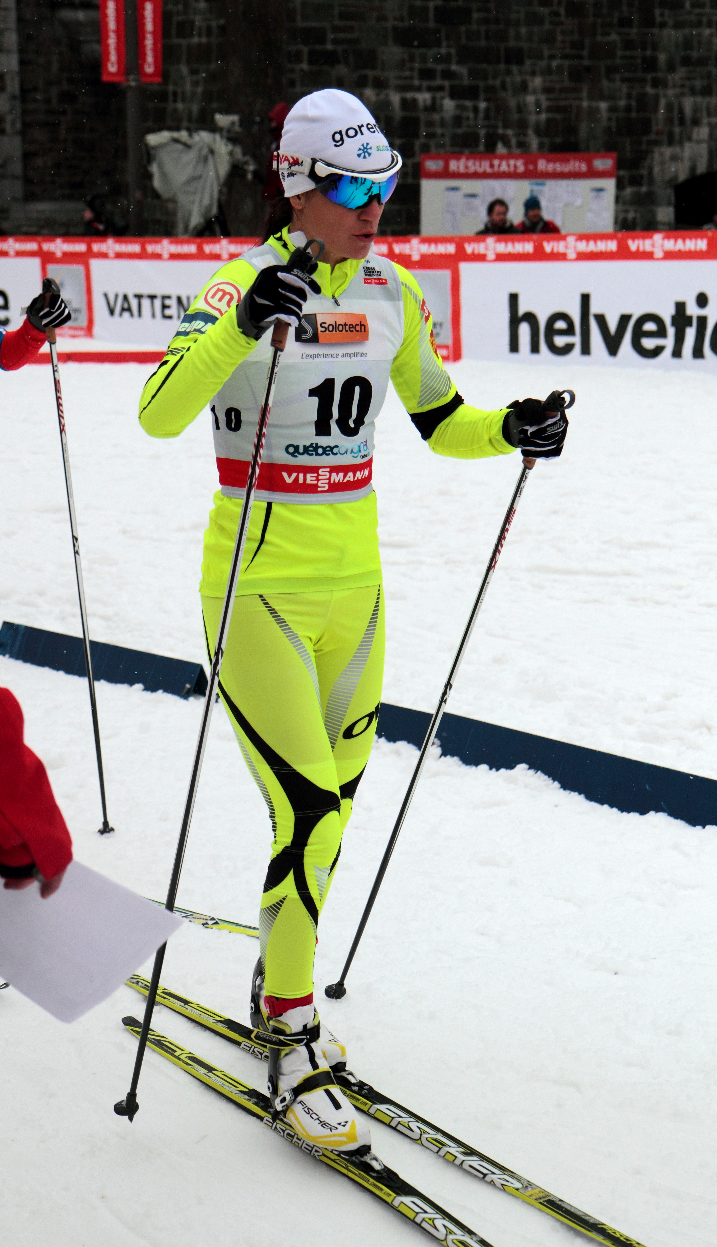 Katja Višnar, FIS Cross-Country World Cup 2012, Quebec, Canada.